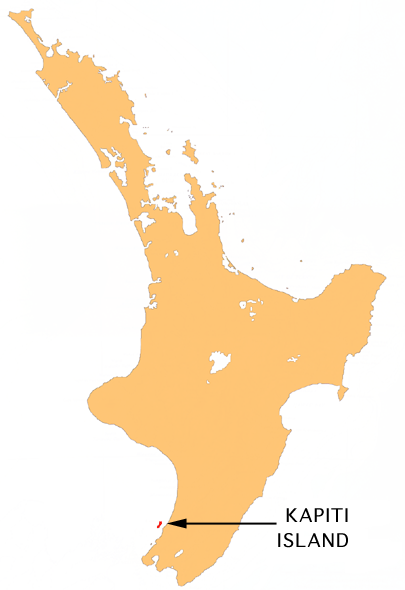 Location map of Kapiti Island, New Zealand.